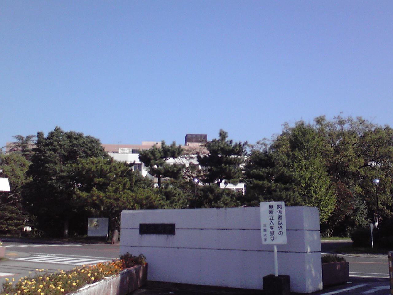 This is the main gate of mie university.